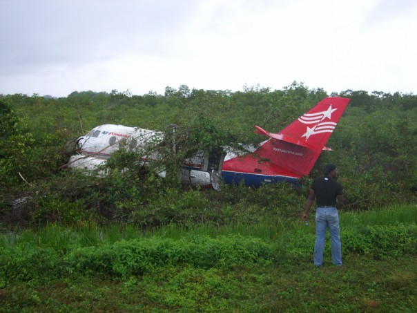 Flight 680 shortly after crashing into marsh in Bocas del Toro.